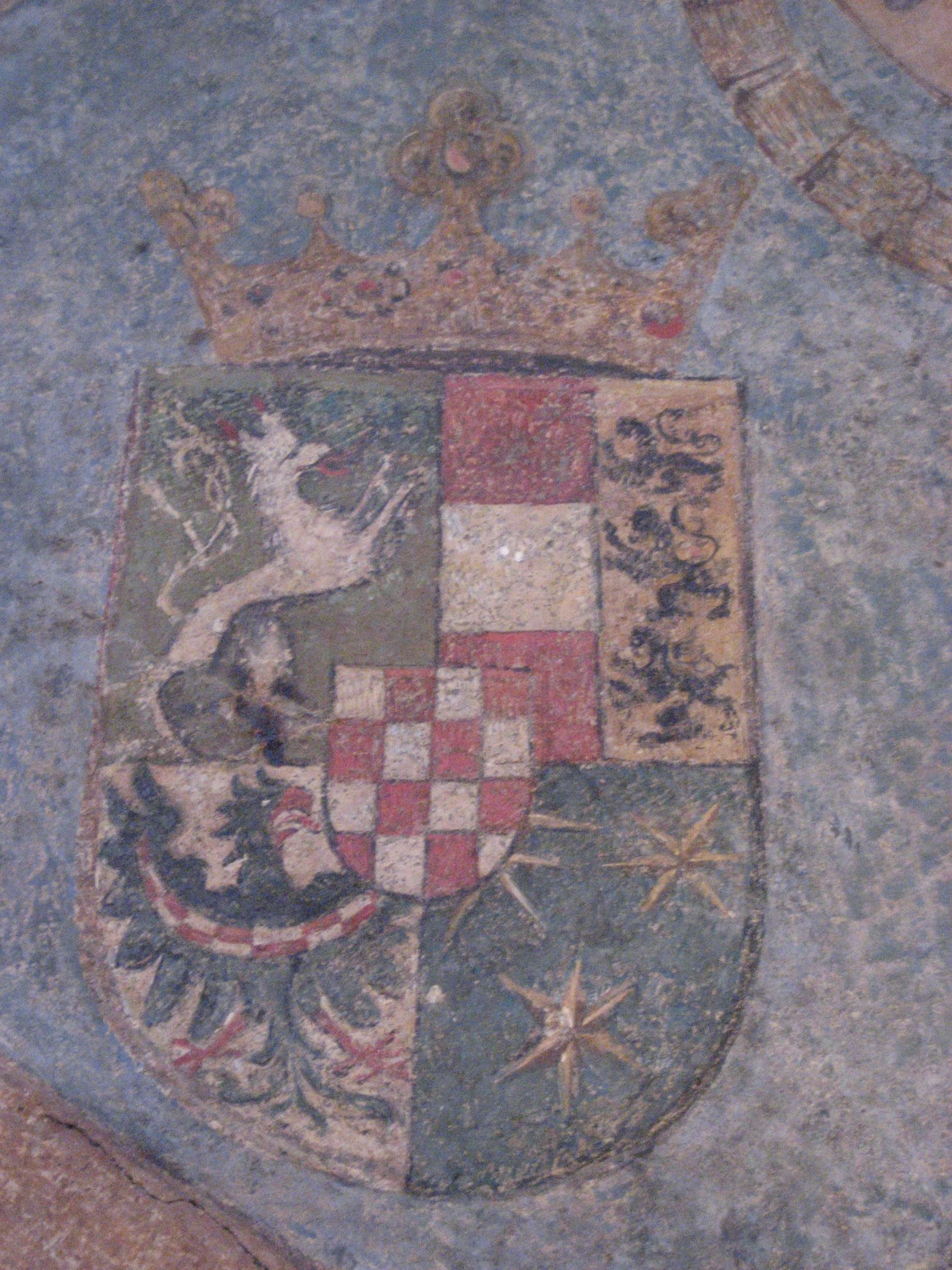 Coat of Arms of medieval Croatia from 1495 in union with Austria. Picture made in Innsbruck, Austria.